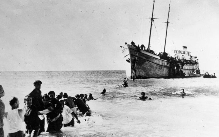 Made ​​a breakthrough by the blockade to Palestine. With 700 Jewish immigrants from Central Europe succeeded the steamer " United States " in Bari, Italy, to break from the English blockade and reach the coast of Palestine near Nahariya . All immigrants were brought ashore with a rope while standing lifeboats available for the elderly and the sick . The next day, British police and army units surrounded the landing site , they found only 100 refugees. Of the remaining 600 there was no sign . U.B. shows the landing of Jewish emigrants near Nahariya.